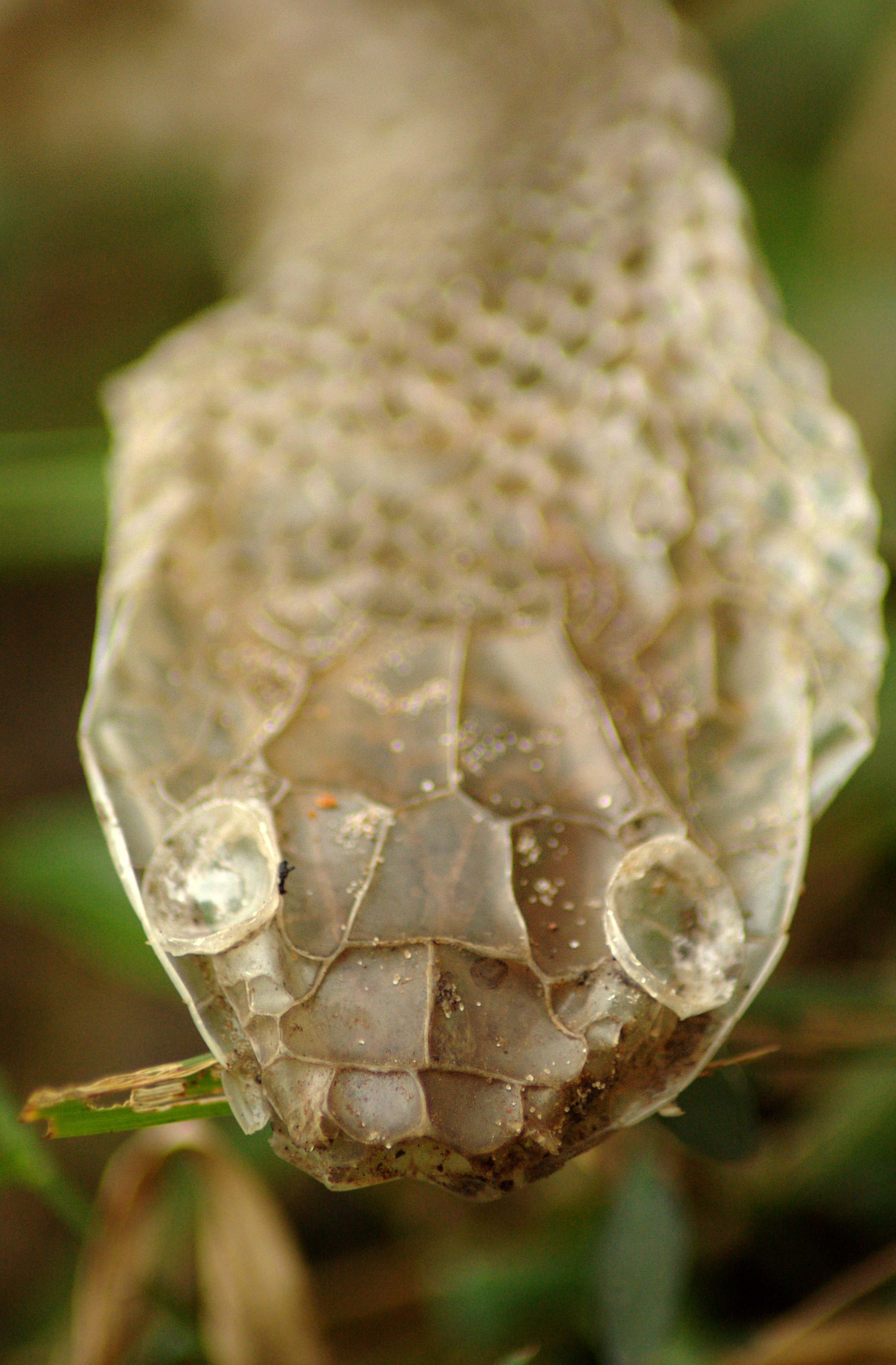 Close up view of Rat Snake's moulted skin